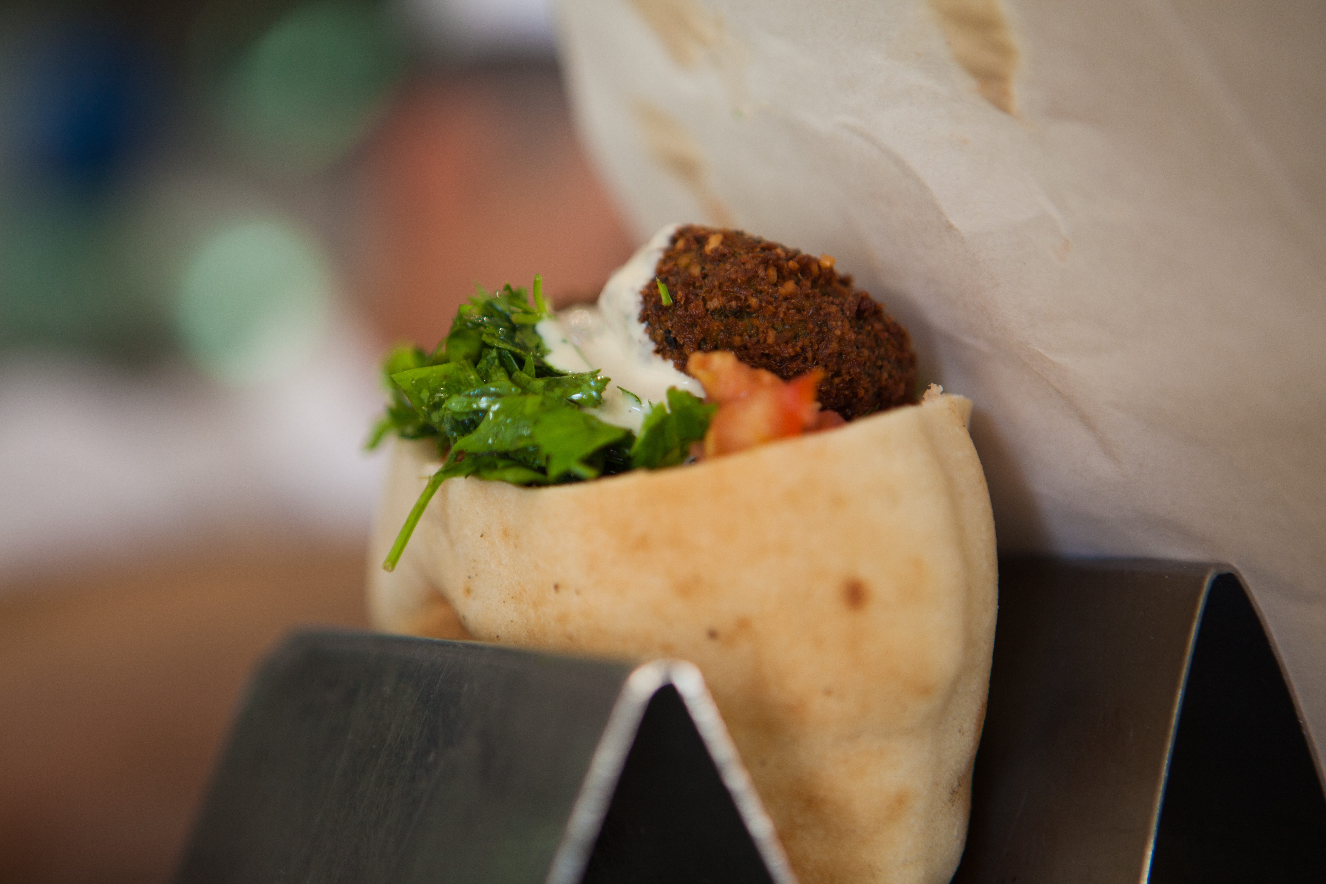 falafel in a pita Photo taken by Dana Friedlander for the Israeli Ministry of Tourism. Credit attribution requested